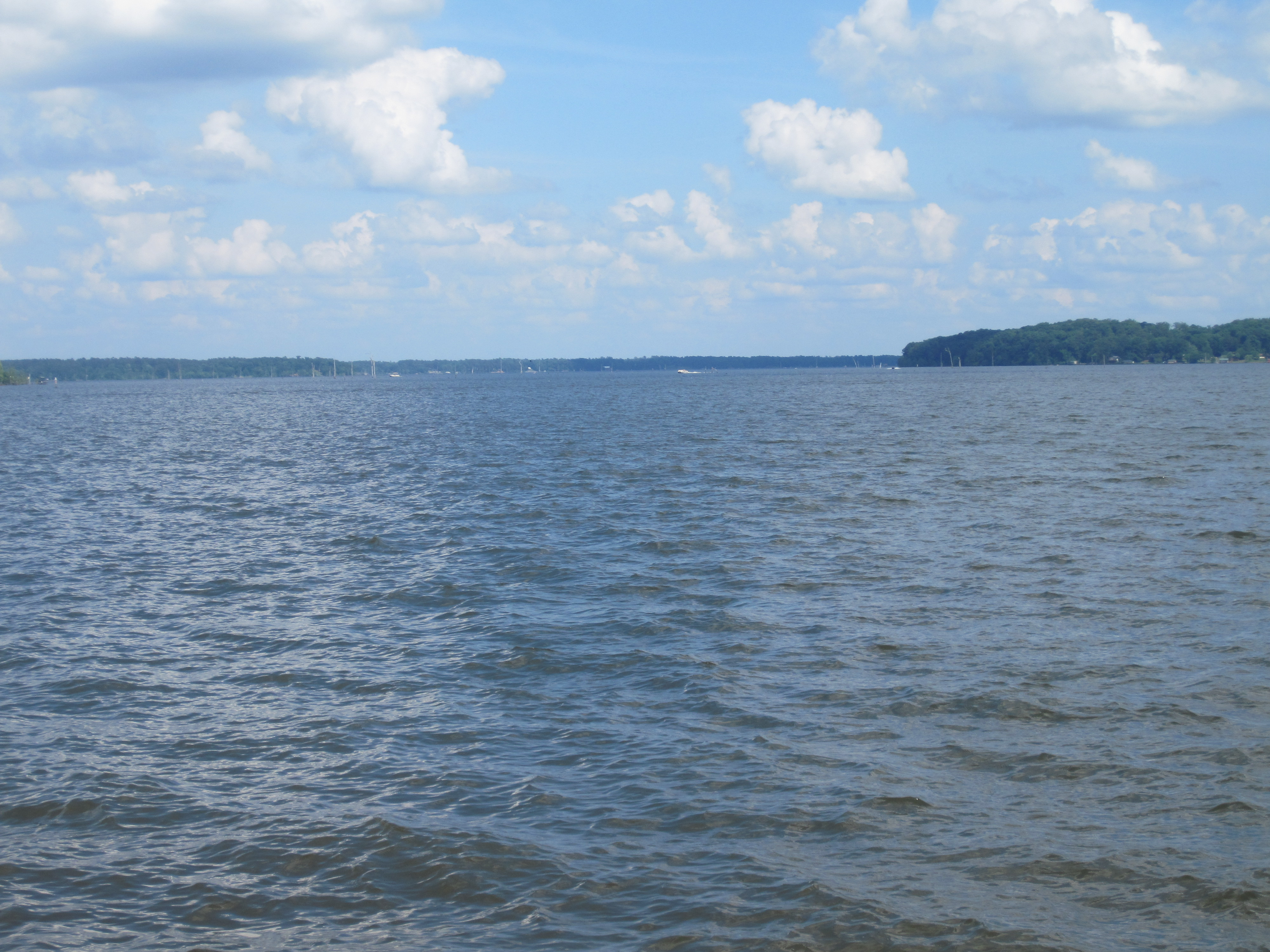 I took photo with Canon camera.